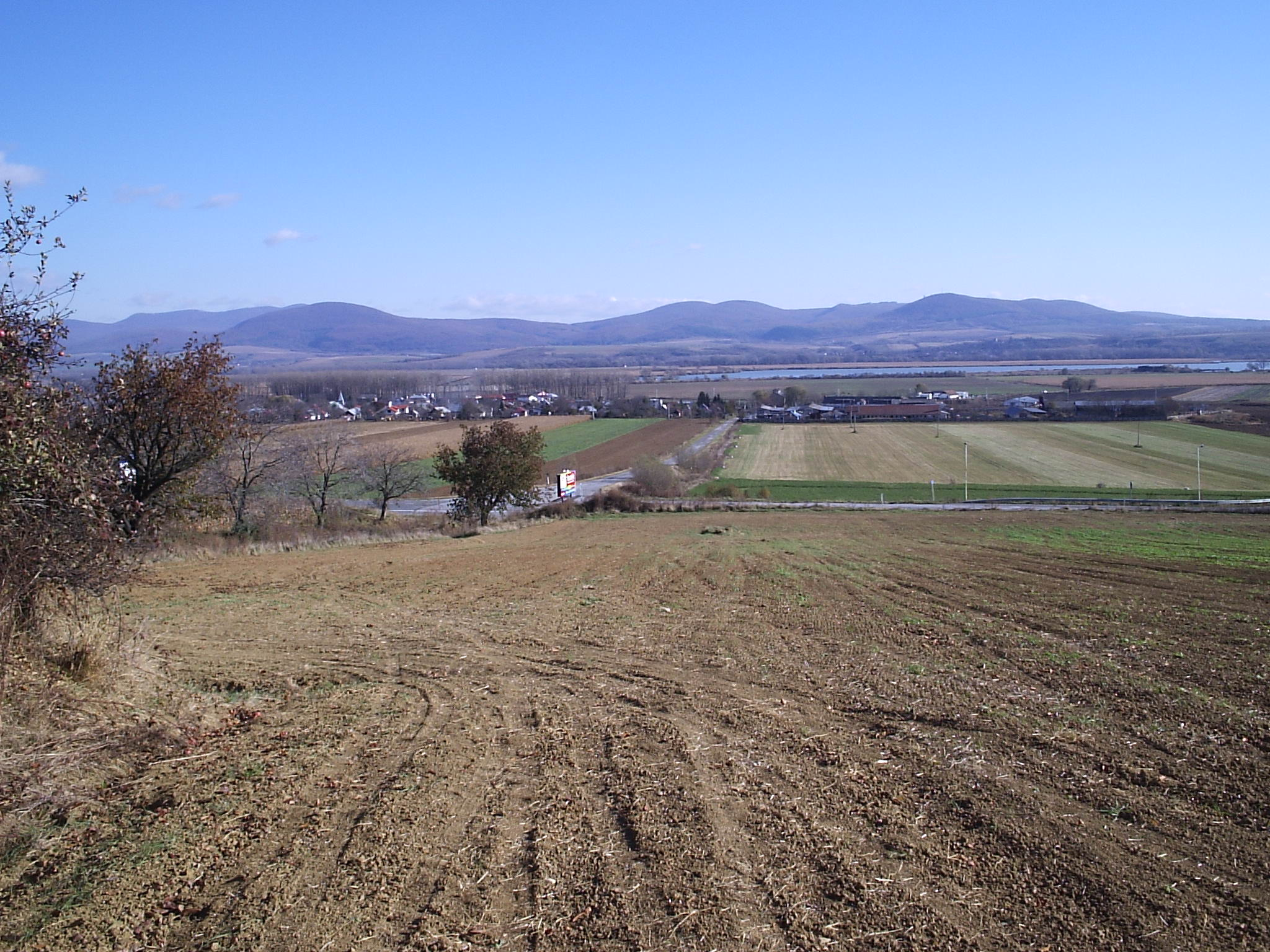 Migléc and its lake caused by pebble mining